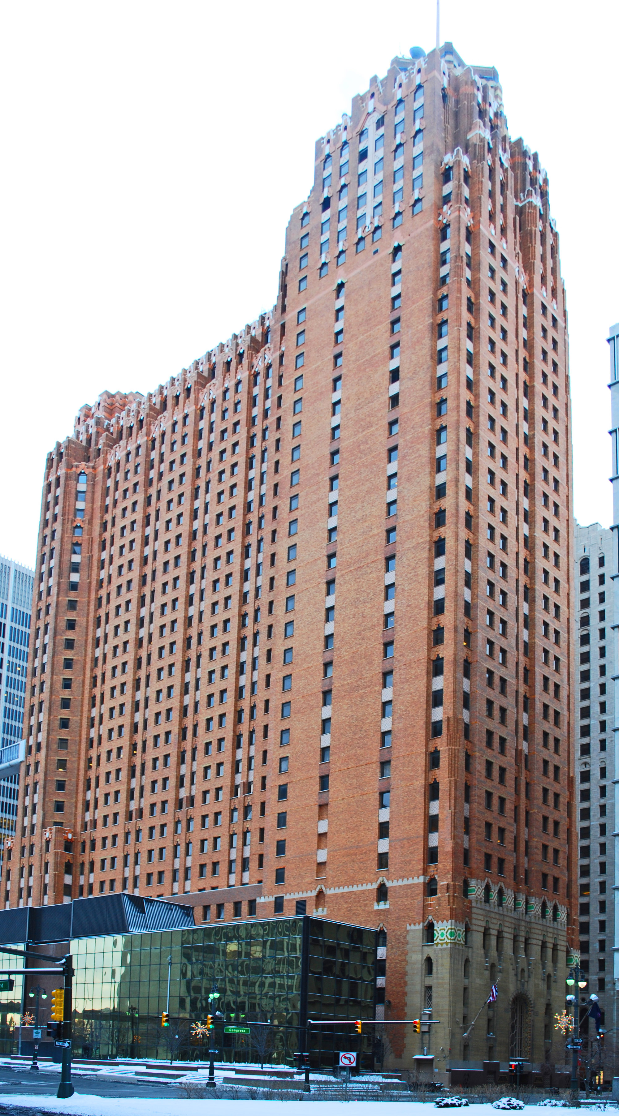 Guardian Building Detroit MI